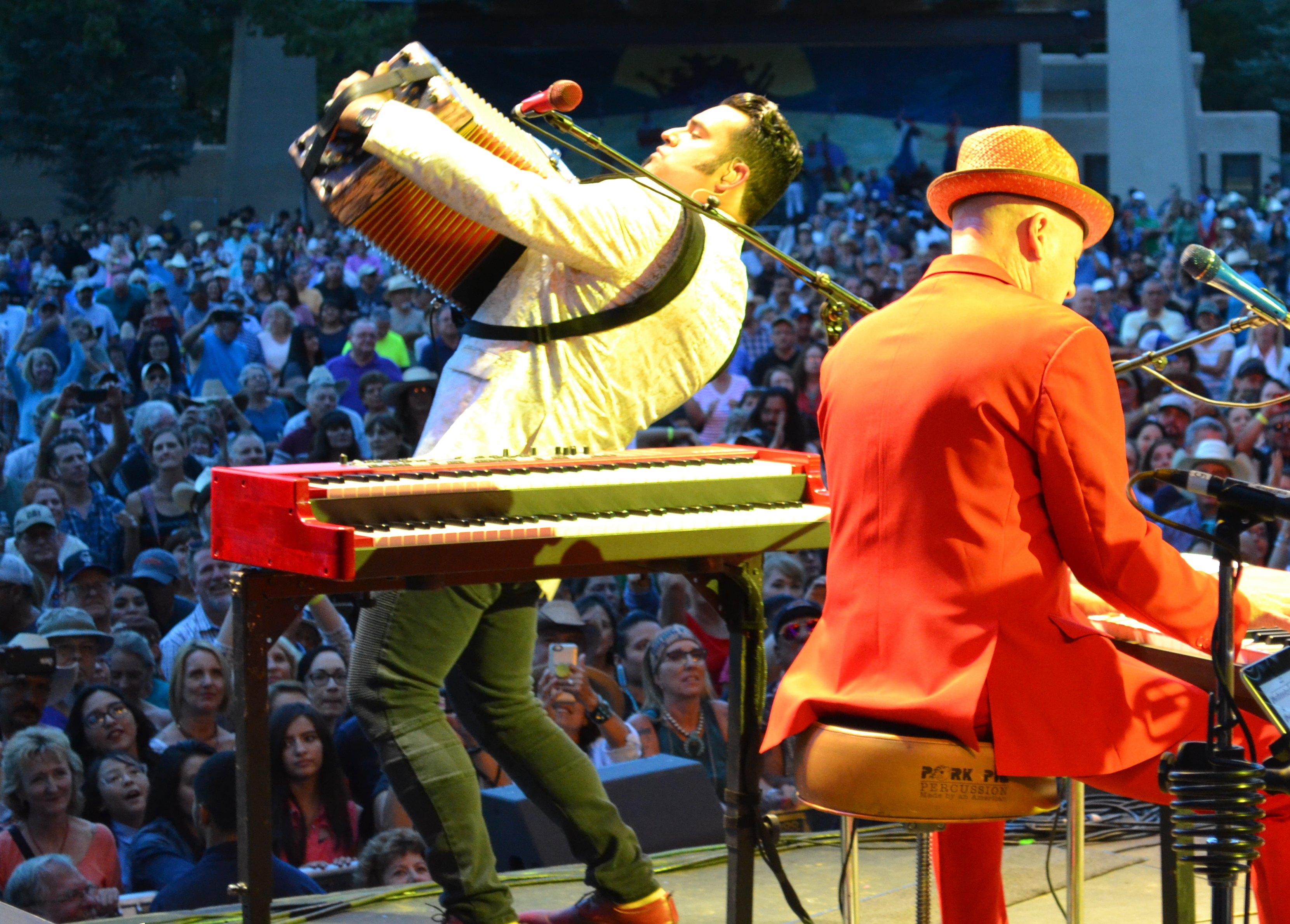 A backstage shot of Accordionist Michael Guerra and Jerry Dale McFadden playing with The Mavericks in Taos, New Mexico in 2017